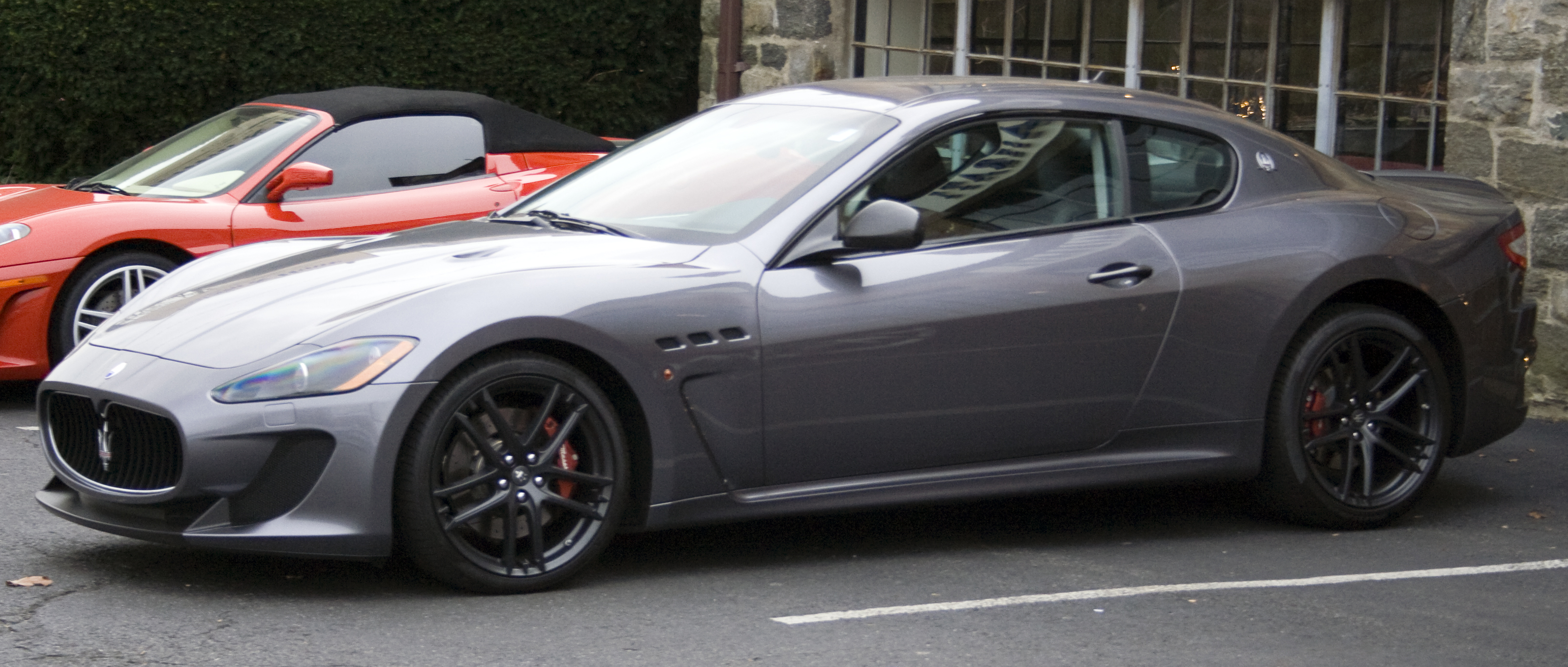 2011 Maserati GranTurismo MC Sport, in Greenwich, CT